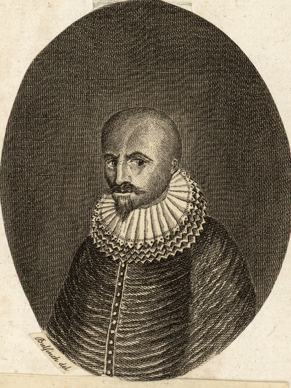 An image from a set of 8 extra-illustrated volumes of A tour in Wales by Thomas Pennant (1726-1798) that chronicle the three journeys he made through Wales between 1773 and 1776. These volumes are unique because they were compiled for Pennant's own library at Downing. This edition was produced in 1781. The volumes include a number of original drawings by Moses Griffiths, Ingleby and other well known artists of the period. Thomas Pennant (1726-1798)